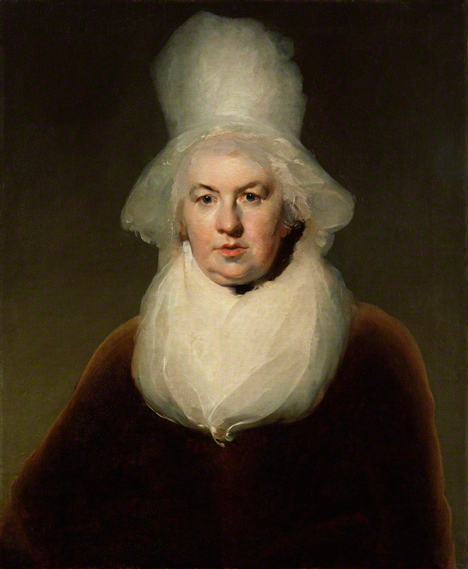 "Sarah Trimmer" painted by Sir Thomas Lawrence (1769-1830). Painter has been dead for over 100 years.